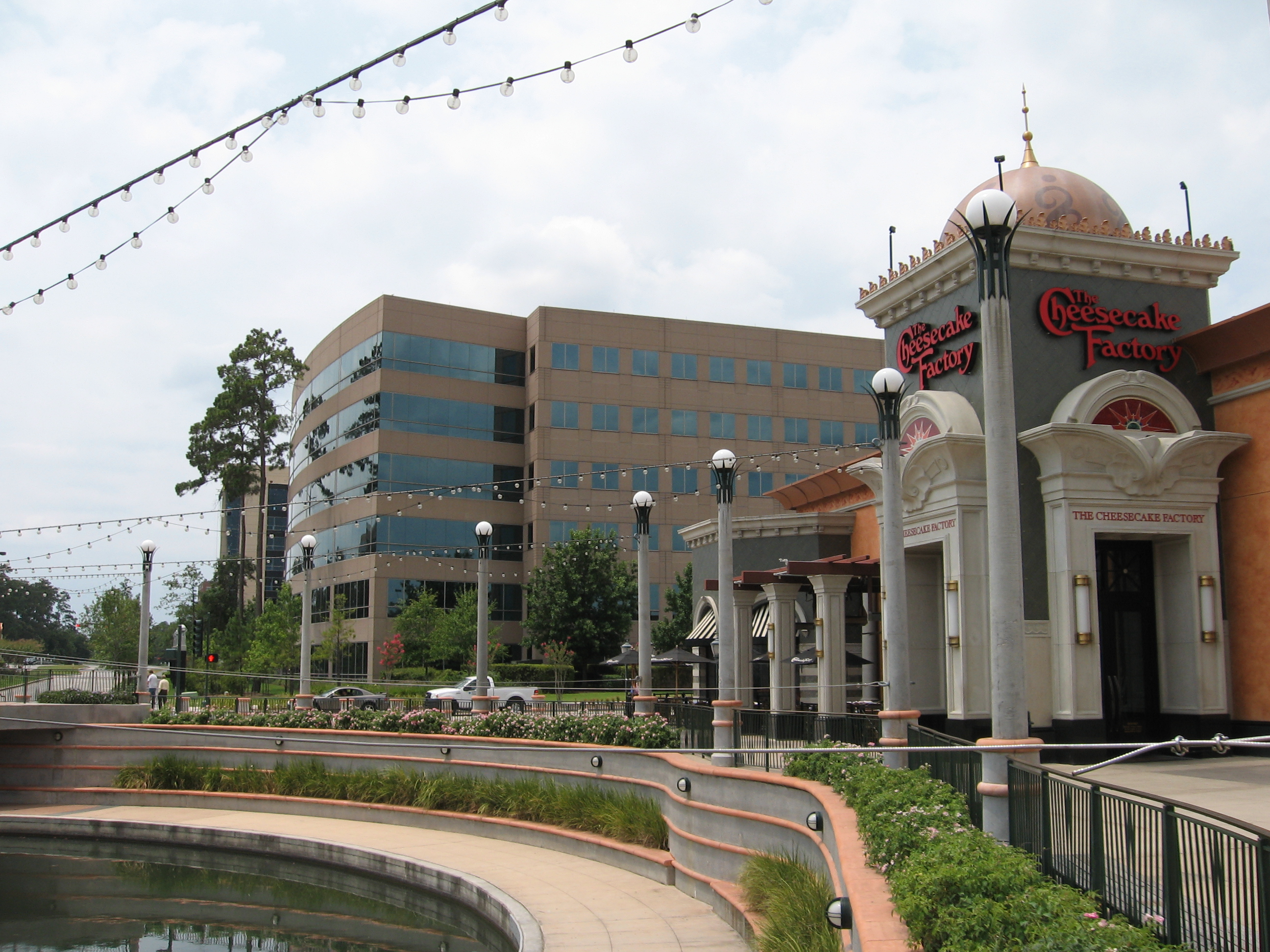 Downtown the Woodlands Texas